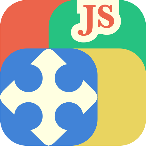 AXMA Story Maker logo.